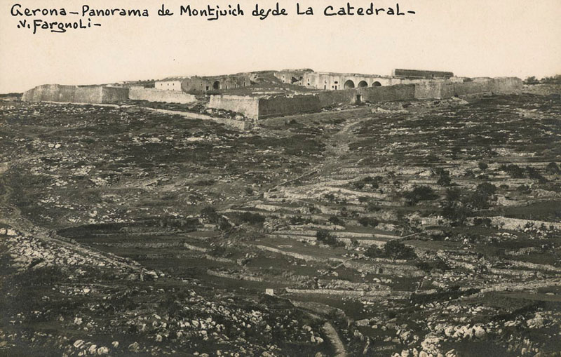 Montjuïc Castle as seen from the Cathedral of Girona. 1911. Valentí Fargnoli. CRDI The image shows the fortress and the absence of much development around it in 1911.